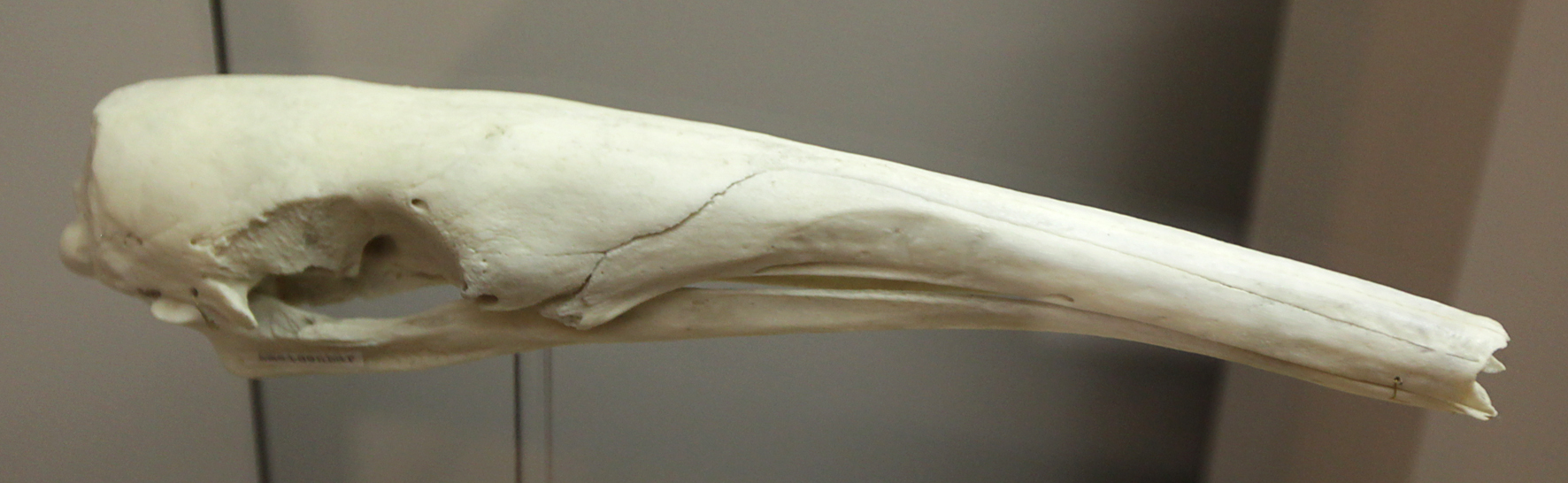 Skull of the Giant Anteater (Myrmecophaga tridactyla): Toothless but movable jaws. (Seen at 'Naturkundemuseum Coburg, Germany)